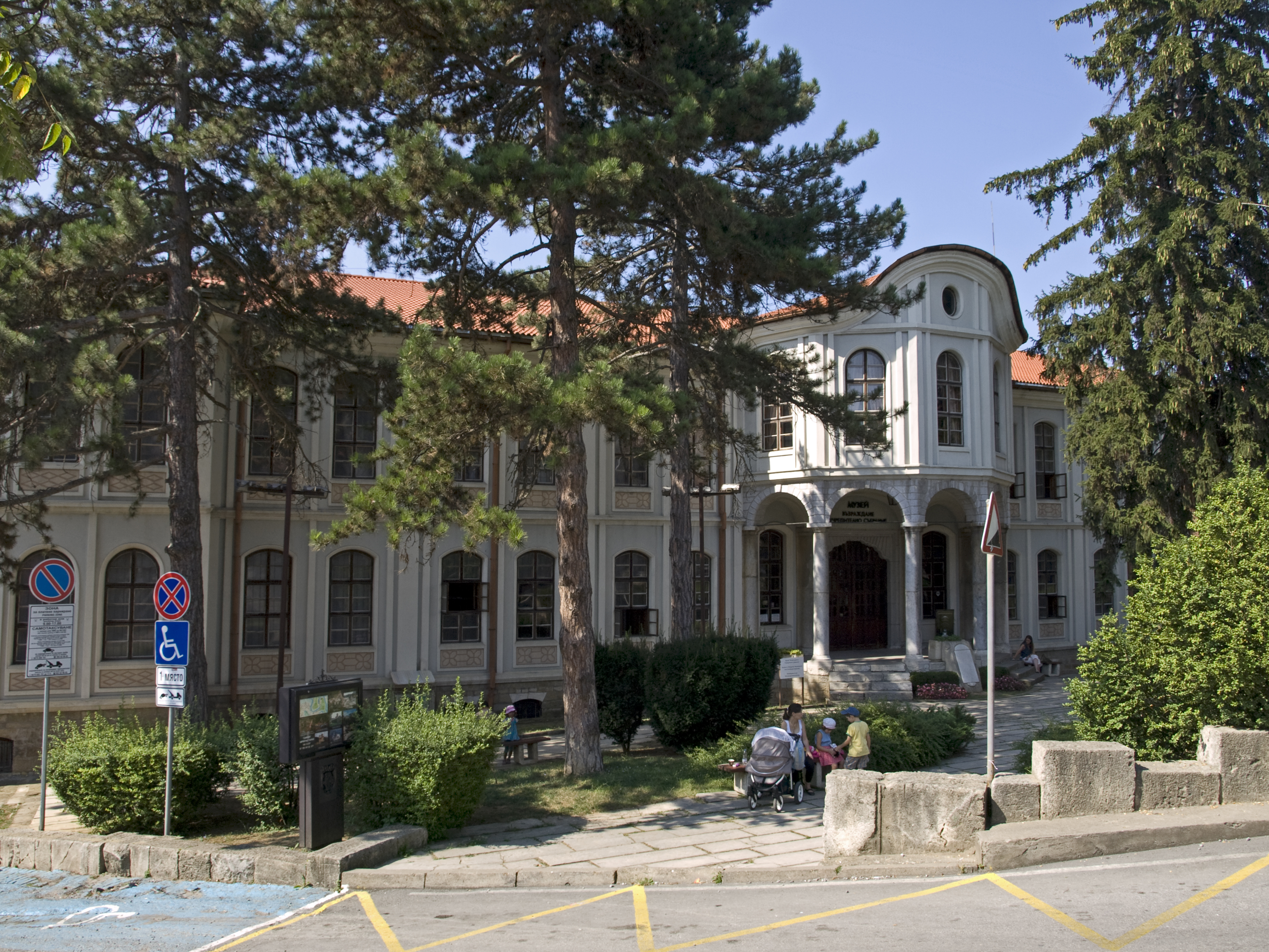 Bulgarian parliament building, currently the museum, Veliko Tarnovo